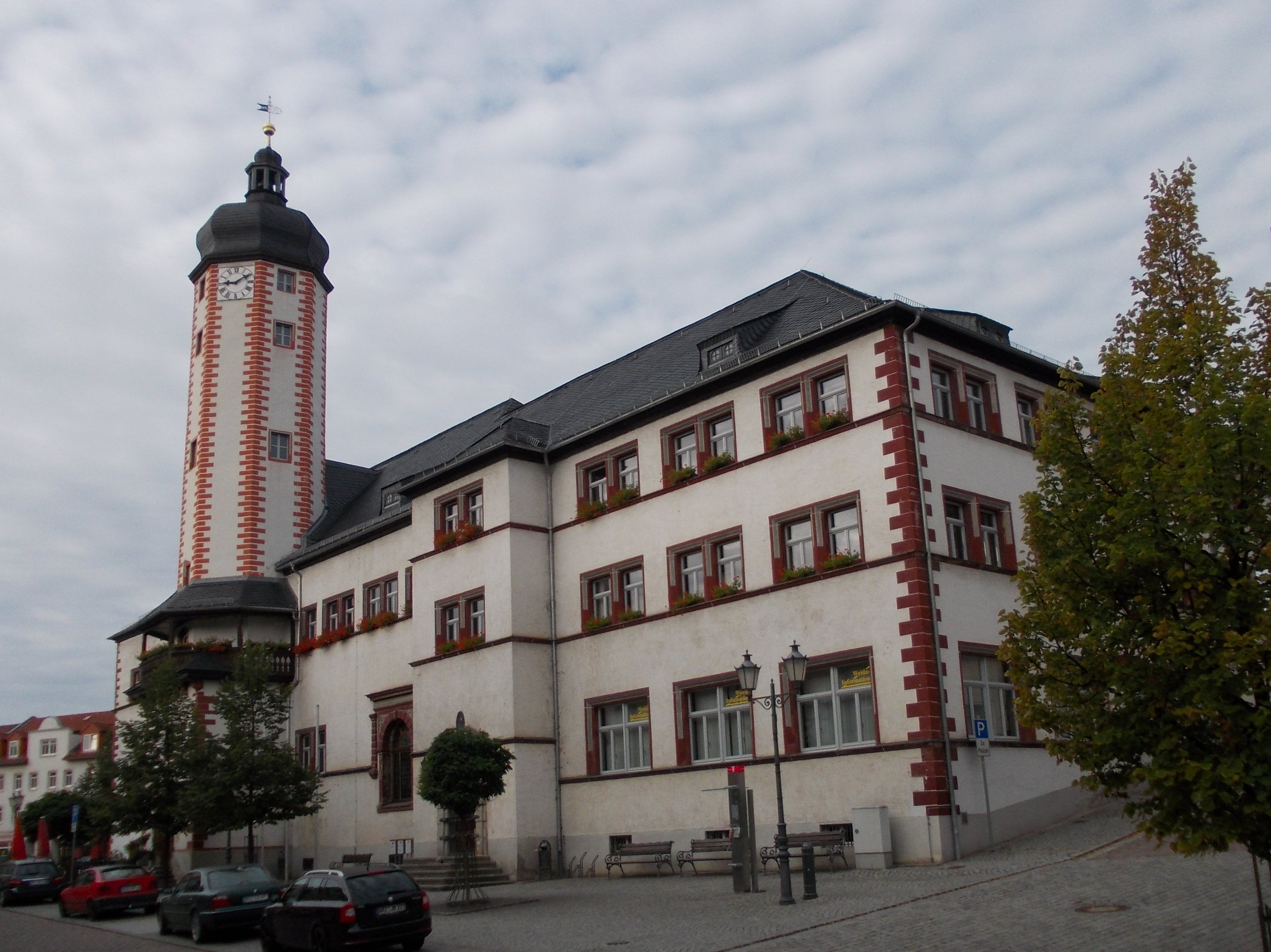 Town hall in Weida (Greiz district, Thuringia)